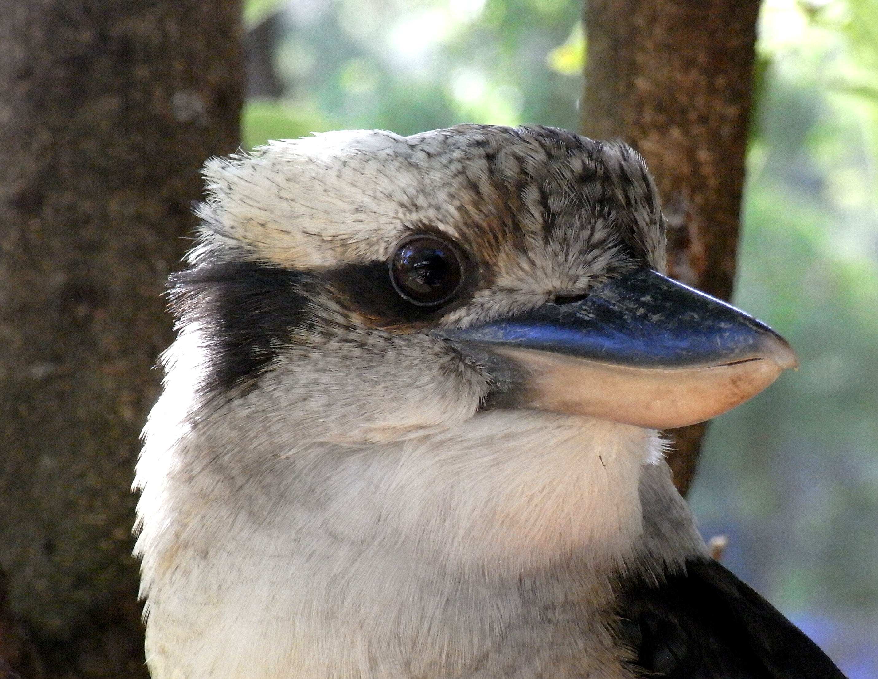 Laughing Kookaburra (Dacelo novaeguineae) at Audley, Royal National Park, New South Wales, Australia.